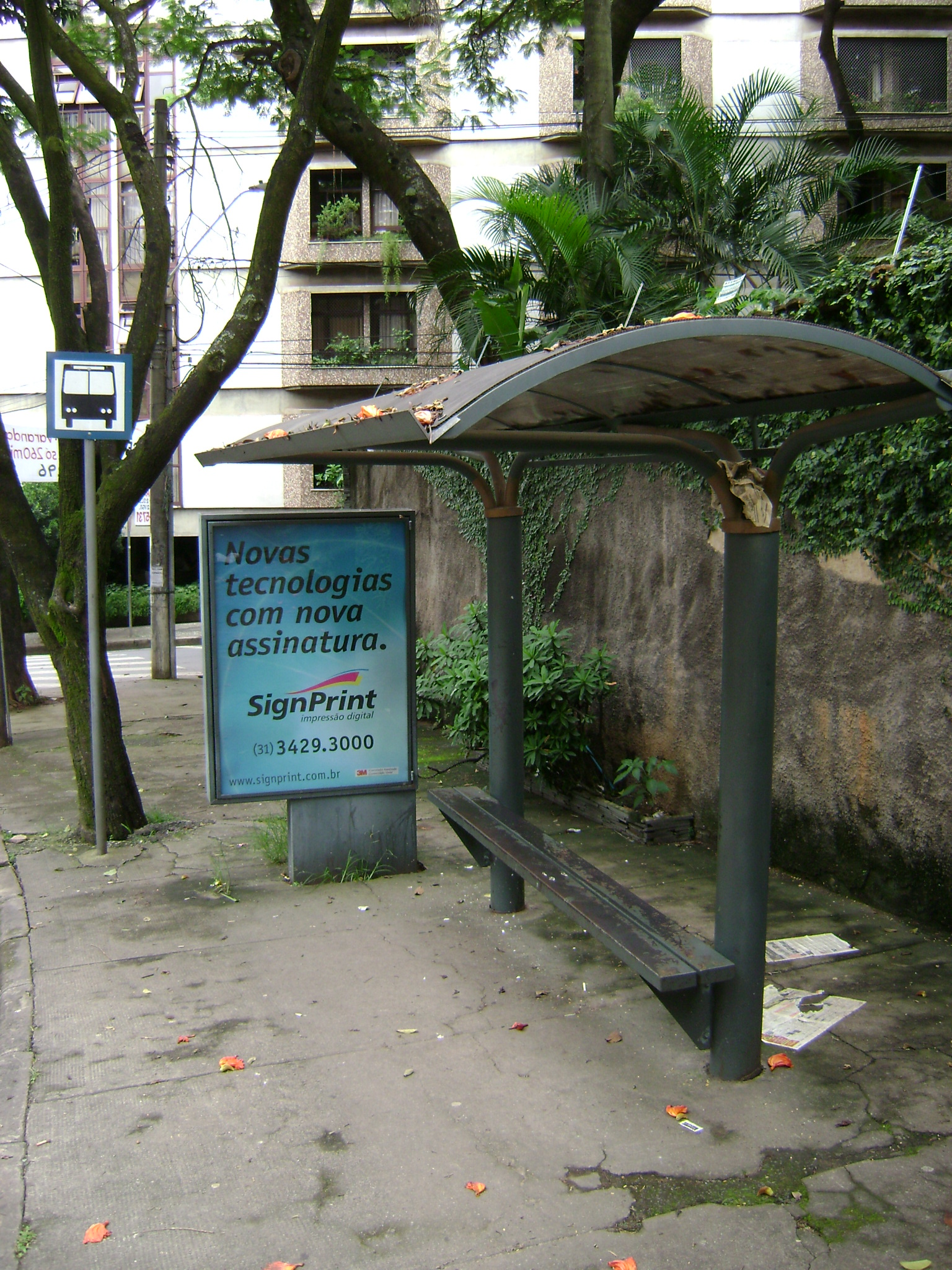 Ponto de ônibus em Belo Horizonte